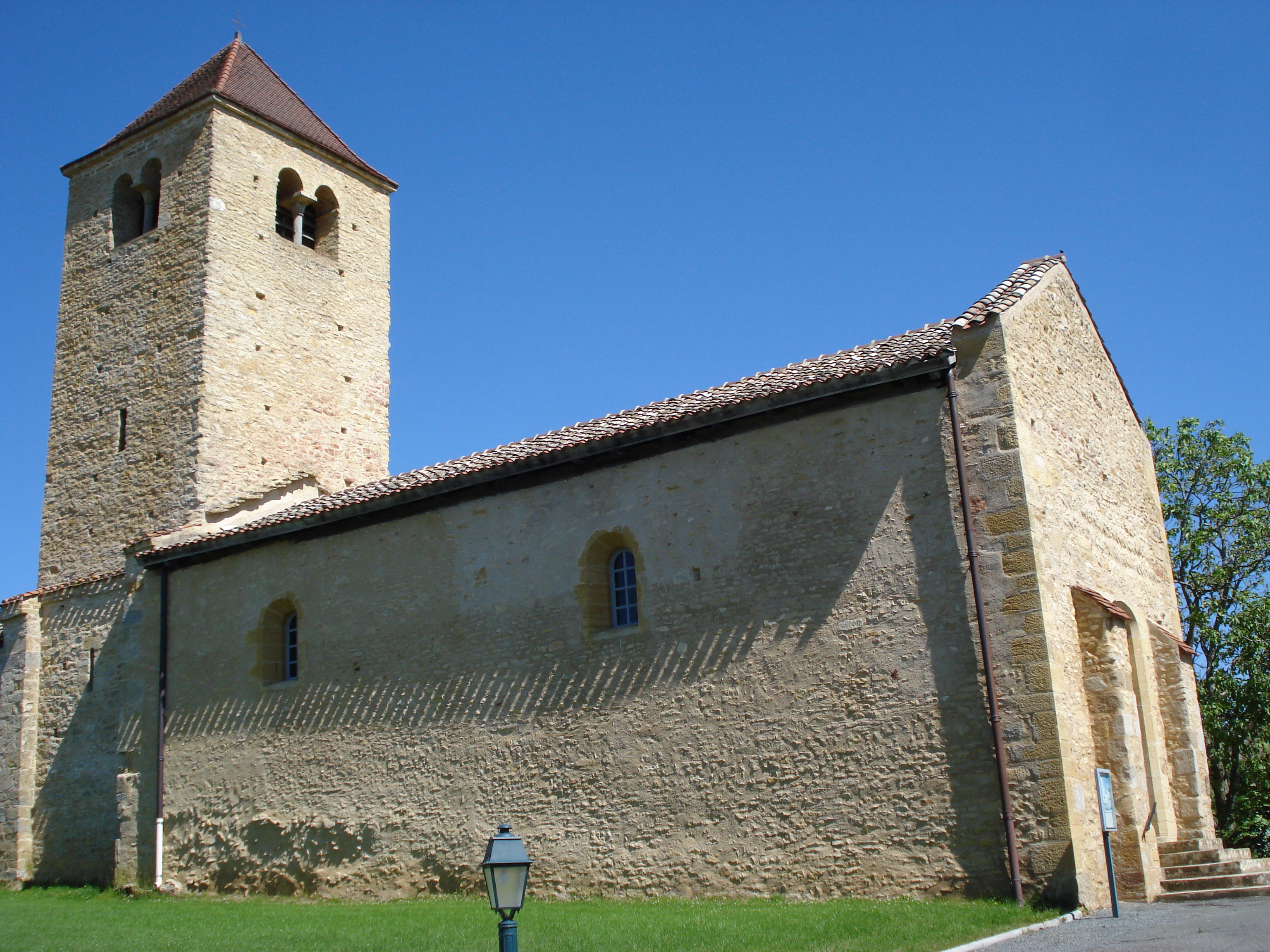 Church of Chassy (Saône-et-Loire, Fr) Le gros oeuvre de l'église date du XIe siècle, des rangées de pierres disposées en arête-de-poisson sont visibles sur la façade occidentale.